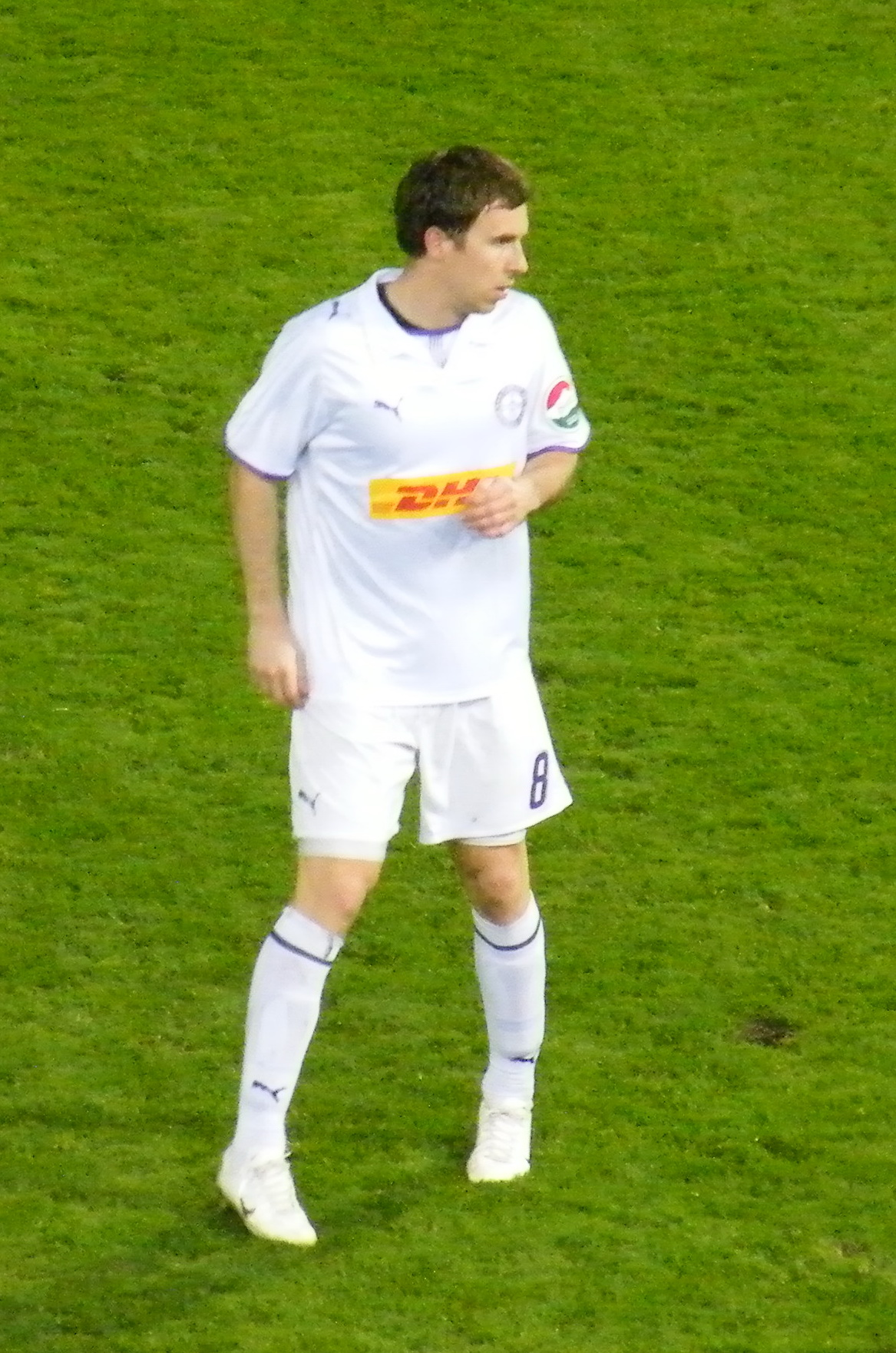 Péter Rajczi Hungarian association football player.